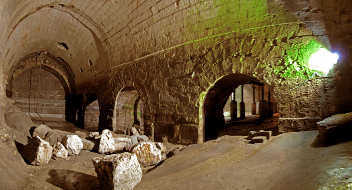 Struthion Pool, Jerusalem, Israel, 2009